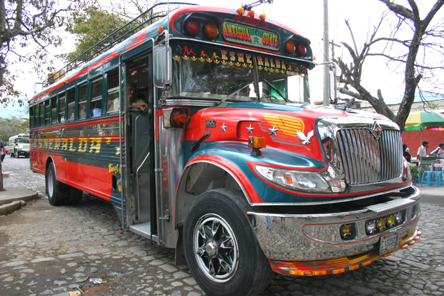 A picture of a bus take it in the city of Antigua Guatemala.